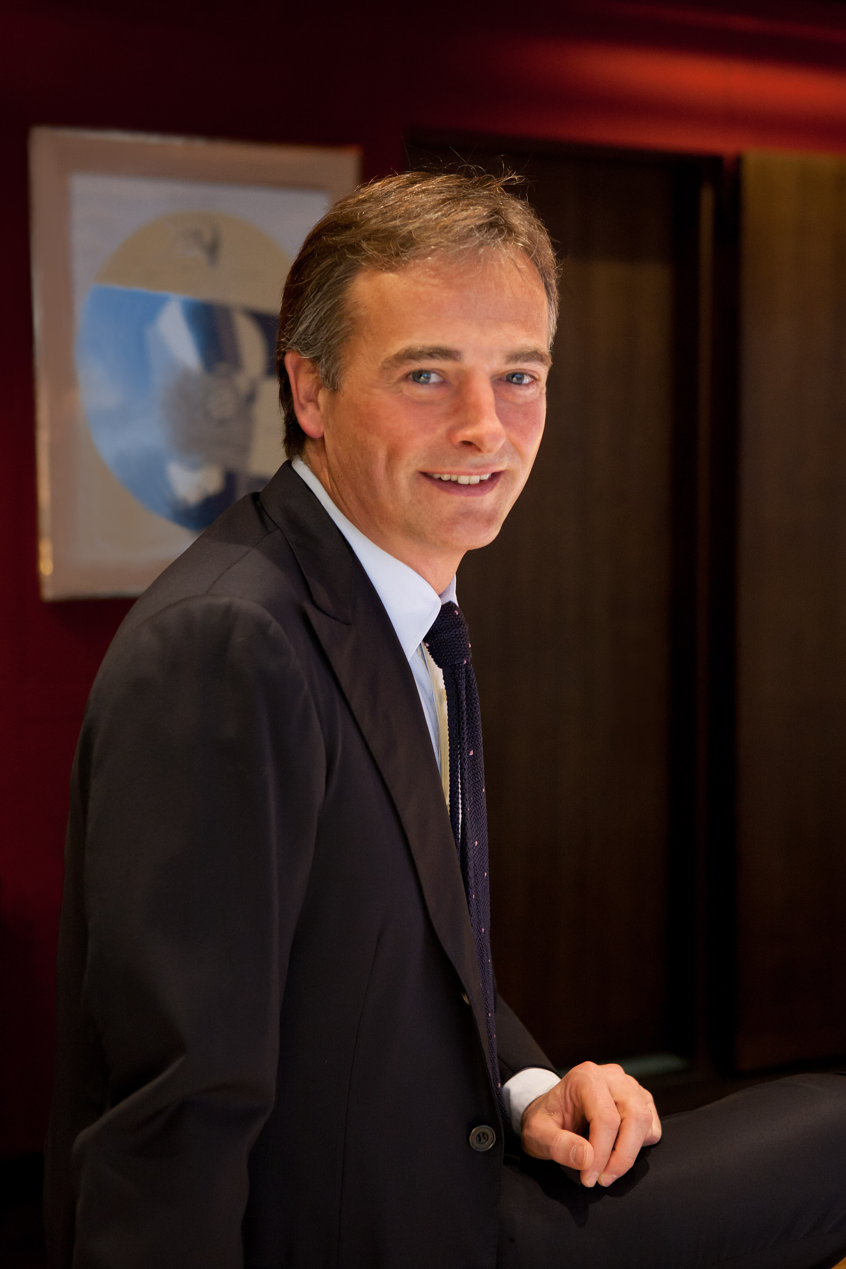 Alessandro Garrone